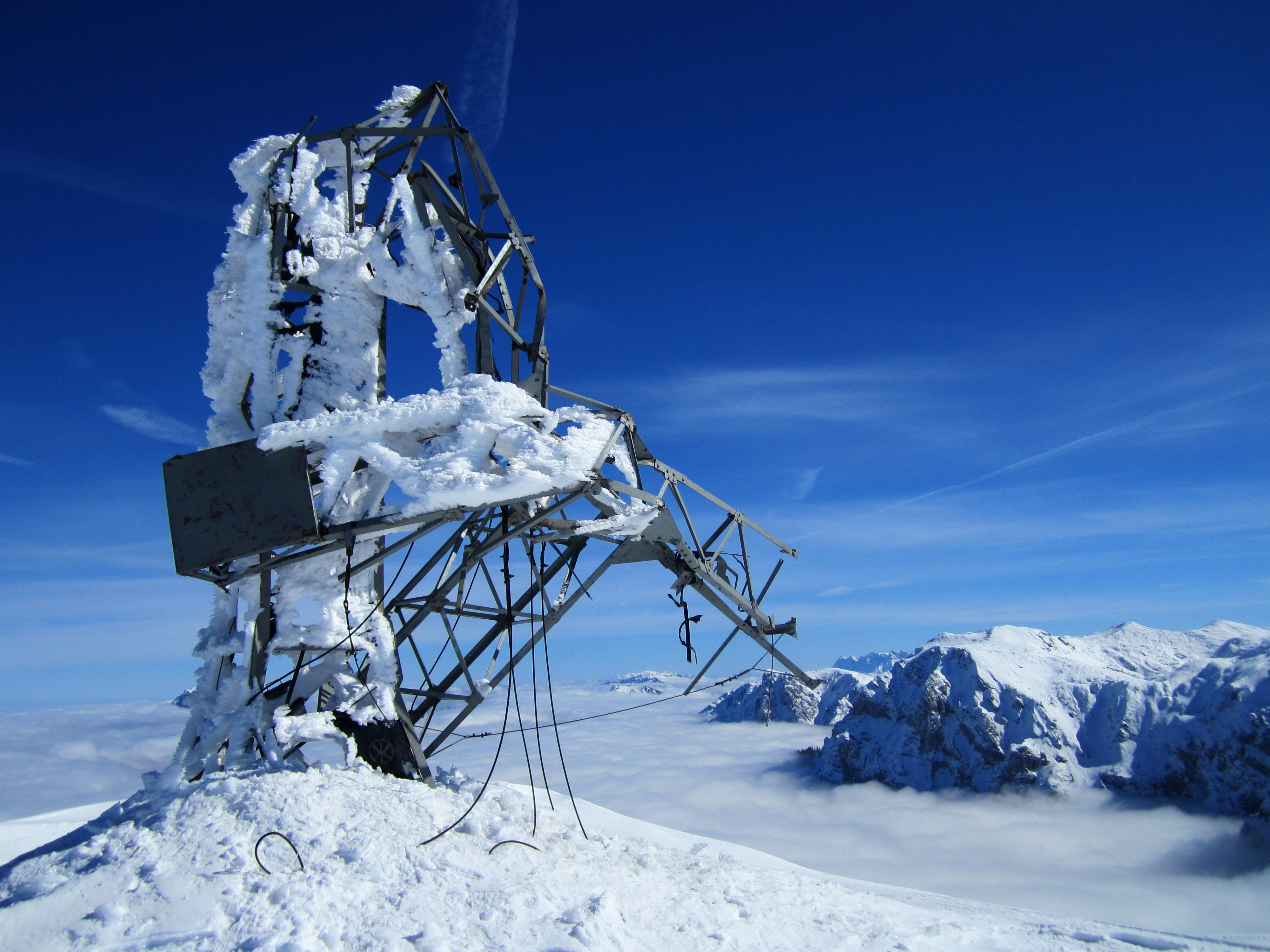 Broken summit cross on Brunnkogel, Höllengebirge, Austria